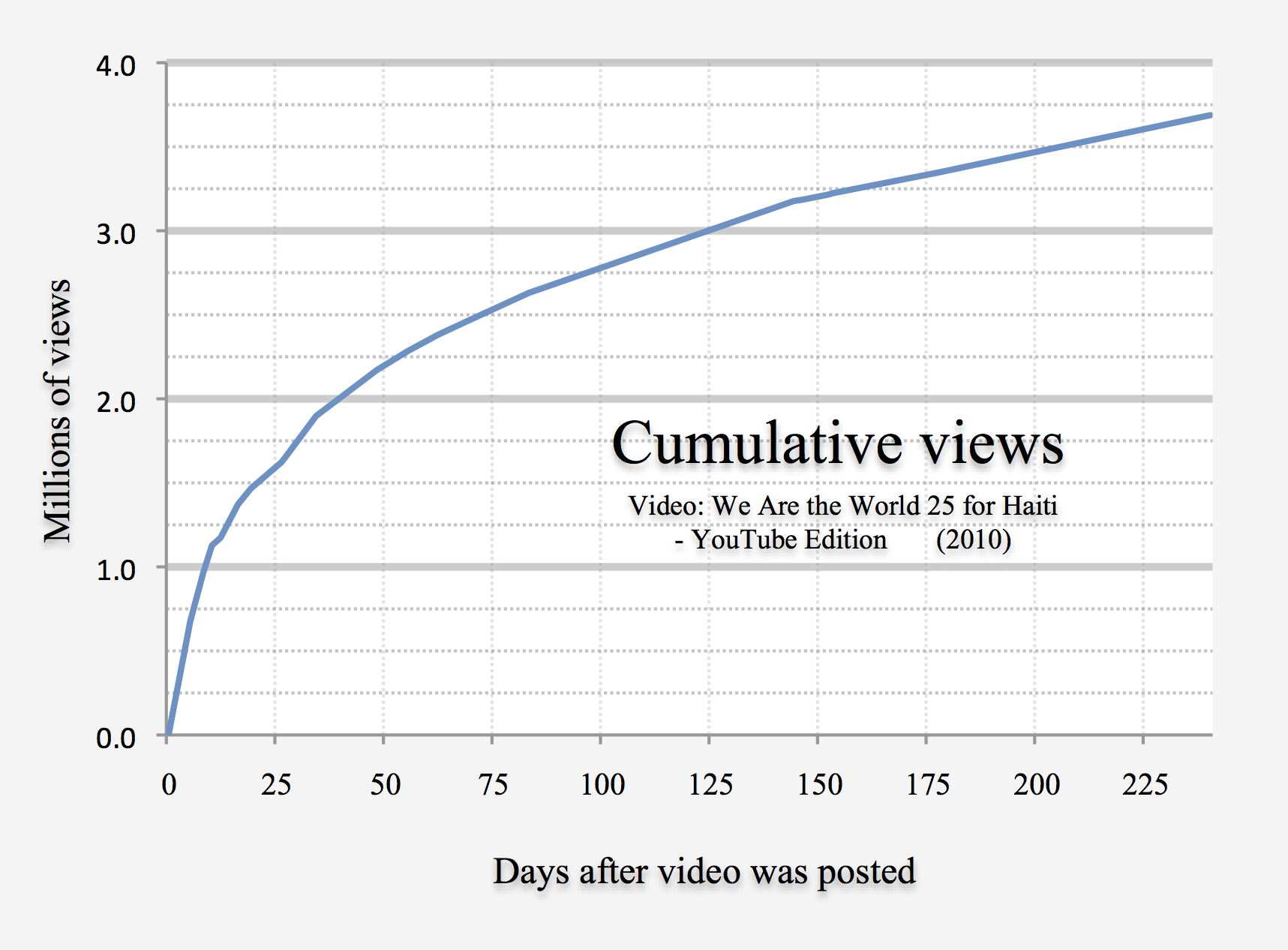 Graph of cumulative views of We Are the World 25 for Haiti (YouTube edition) video. Data taken from Wayback Machine archive of video at : and from . Many of the plotted data points are linearly interpolated between archived data points.